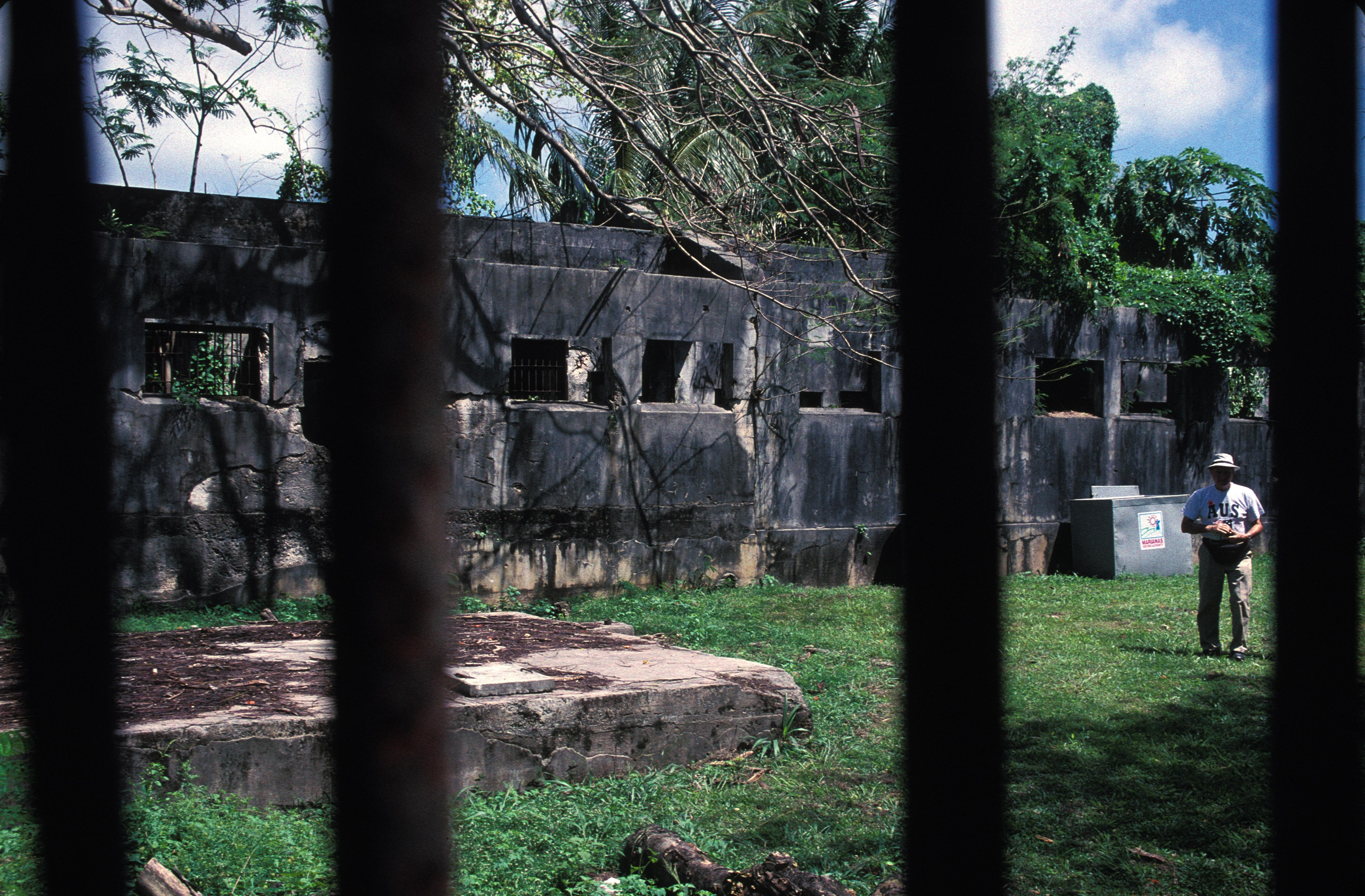 JAPANESE JAIL ON THE WALLS OF ONE OF THE CELLS ARE SCRATCHED THE INITIALS ARE WHICH SOME PEOPLE HAVE CONVINCED THEMSELVES STAND FOR AMELIA EARHART